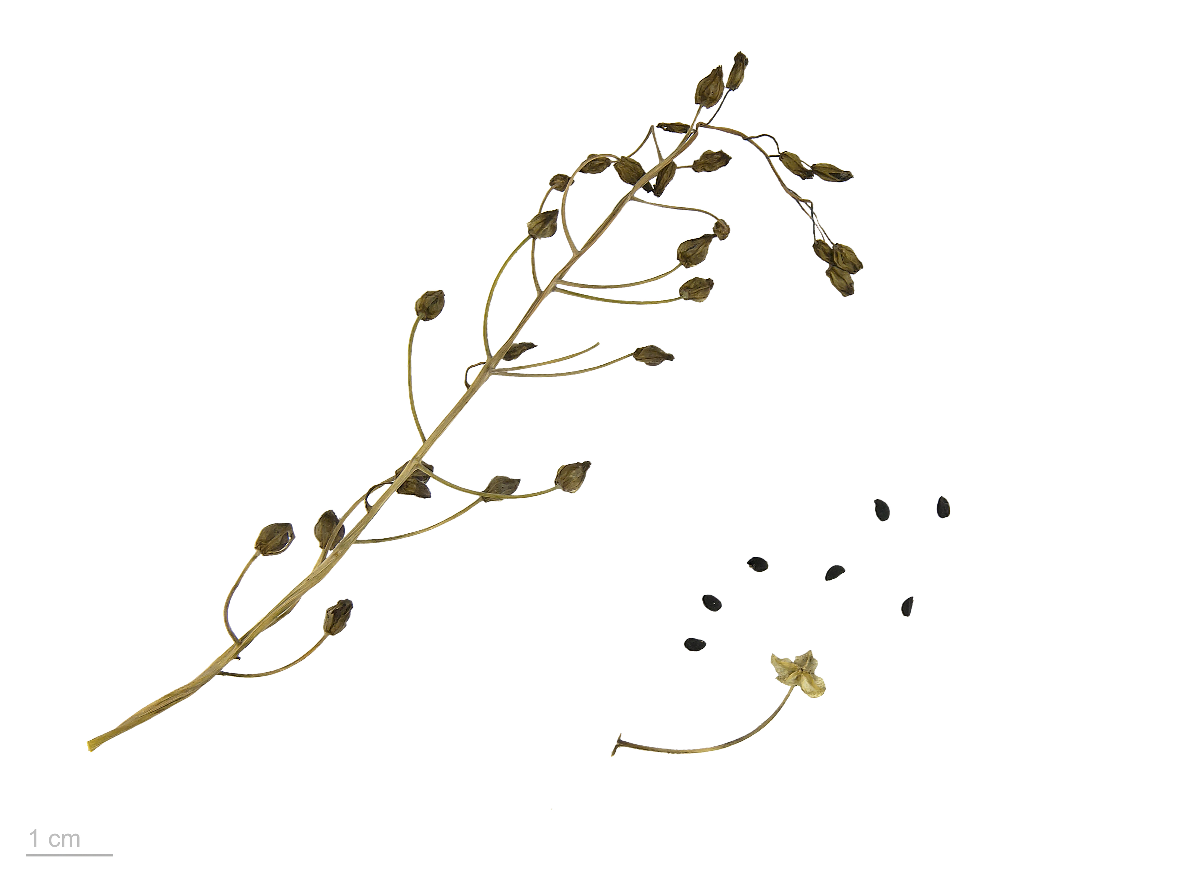 Prospero autumnale, autumn squill, seeds